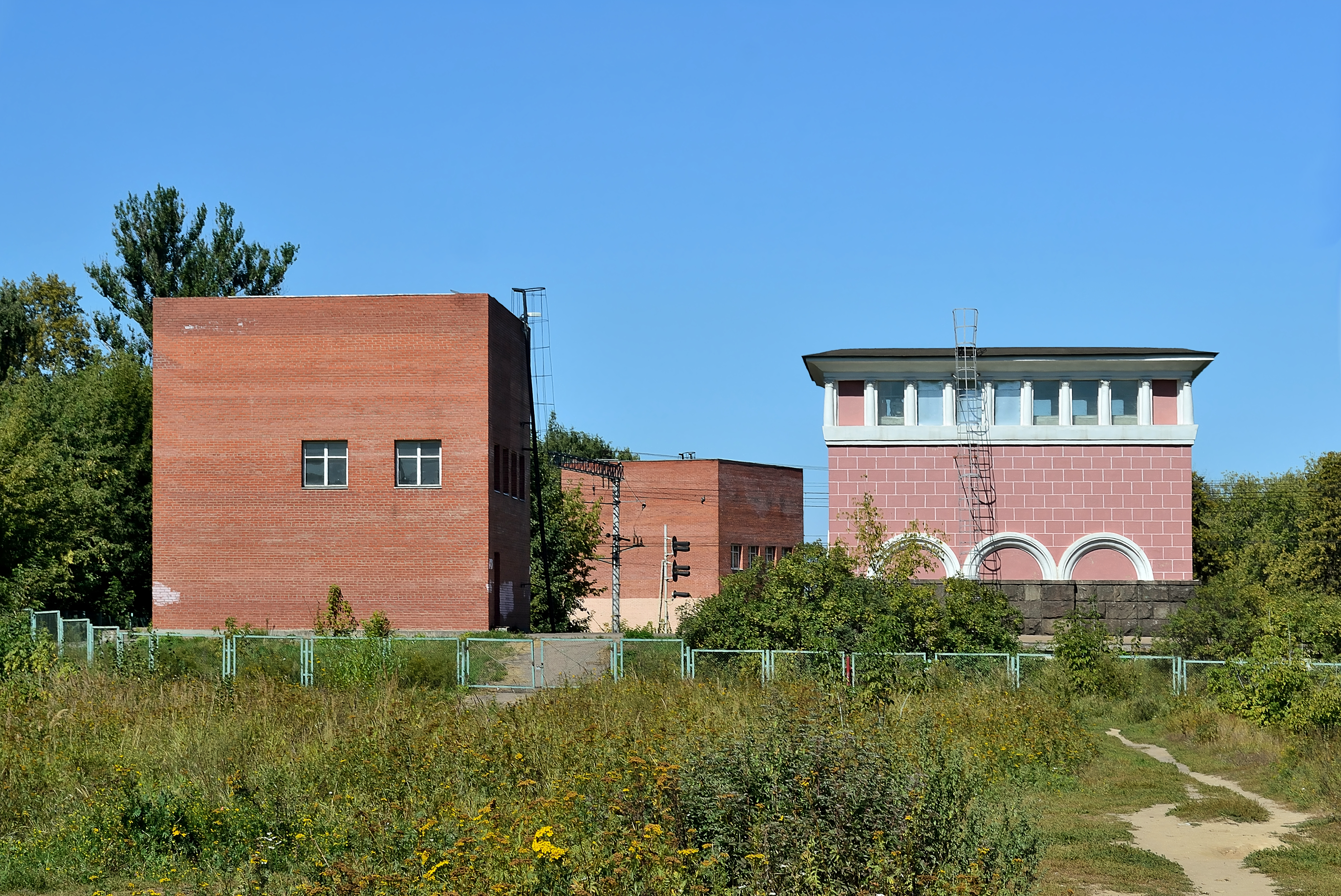 Korolyov, Moscow Oblast. Valve houses of the Eastern Water Supply Canal (Akulovo Water Supply Canal) located at the crossing of the canal and the railway line between the stations Podlipki-Dachnye and Bolshevo.